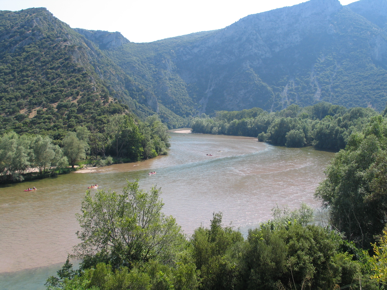 This is a photography of Natura 2000 protected area with ID GR1120004